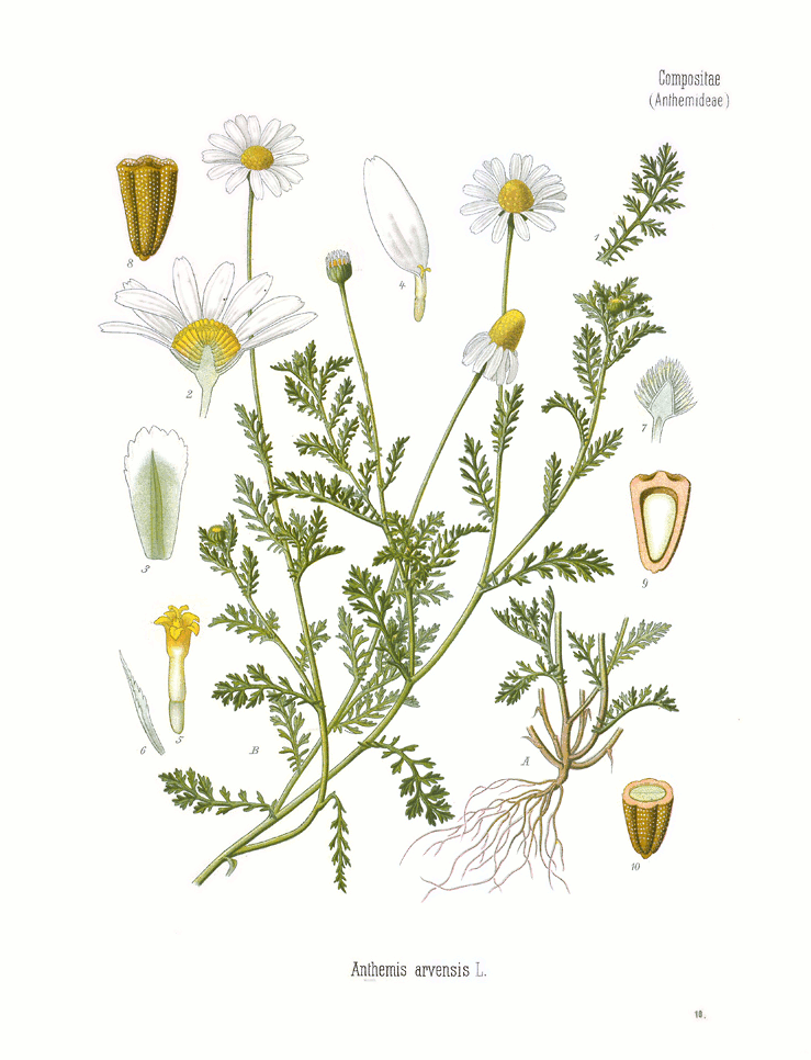 Illustration of Anthemis arvensis L. 10 (Anthemis arvensis L., corn chamomile)